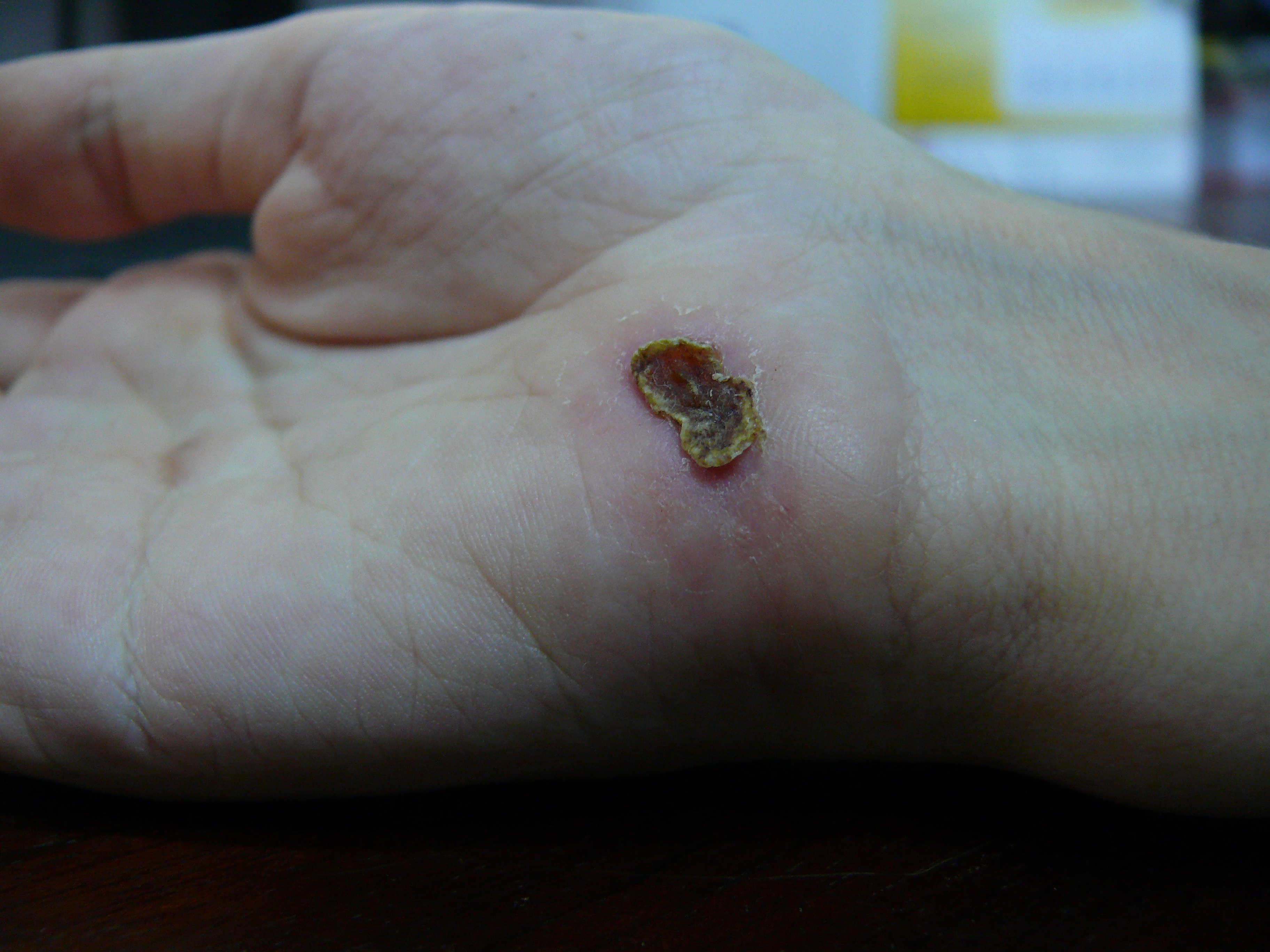 Wound on palm of hand 15 days after falling off a bike onto concrete. Previous photos: Day 1: Image:Wound on palm of hand.jpg Day 2: Image:Wound on palm of hand - day 2.jpg Day 3: Image:Wound on palm of hand - day 3.jpg Day 4: Image:Wound on palm of hand - day 4.jpg Day 5: Image:Wound on palm of hand - day 5.jpg Day 6: Image:Wound on palm of hand - day 6.jpg Day 7: Image:Wound on palm of hand - day 7.jpg Day 8: Image:Wound on palm of hand - day 8.jpg Day 9: Image:Wound on palm of hand - day 9.jpg Day 10: Image:Wound on palm of hand - day 10.jpg Day 11: Image:Wound on palm of hand - day 11.jpg Day 12: Image:Wound on palm of hand - day 12.jpg Day 13: Image:Wound on palm of hand - day 13.jpg Day 14: Image:Wound on palm of hand - day 14.jpg Following photos: Day 16: Image:Wound on palm of hand - day 16.jpg Day 17: Image:Wound on palm of hand - day 17.jpg Day 18: Image:Wound on palm of hand - day 18.jpg Day 19: Image:Wound on palm of hand - day 19.jpg Day 20: Image:Wound on palm of hand - day 20.jpg